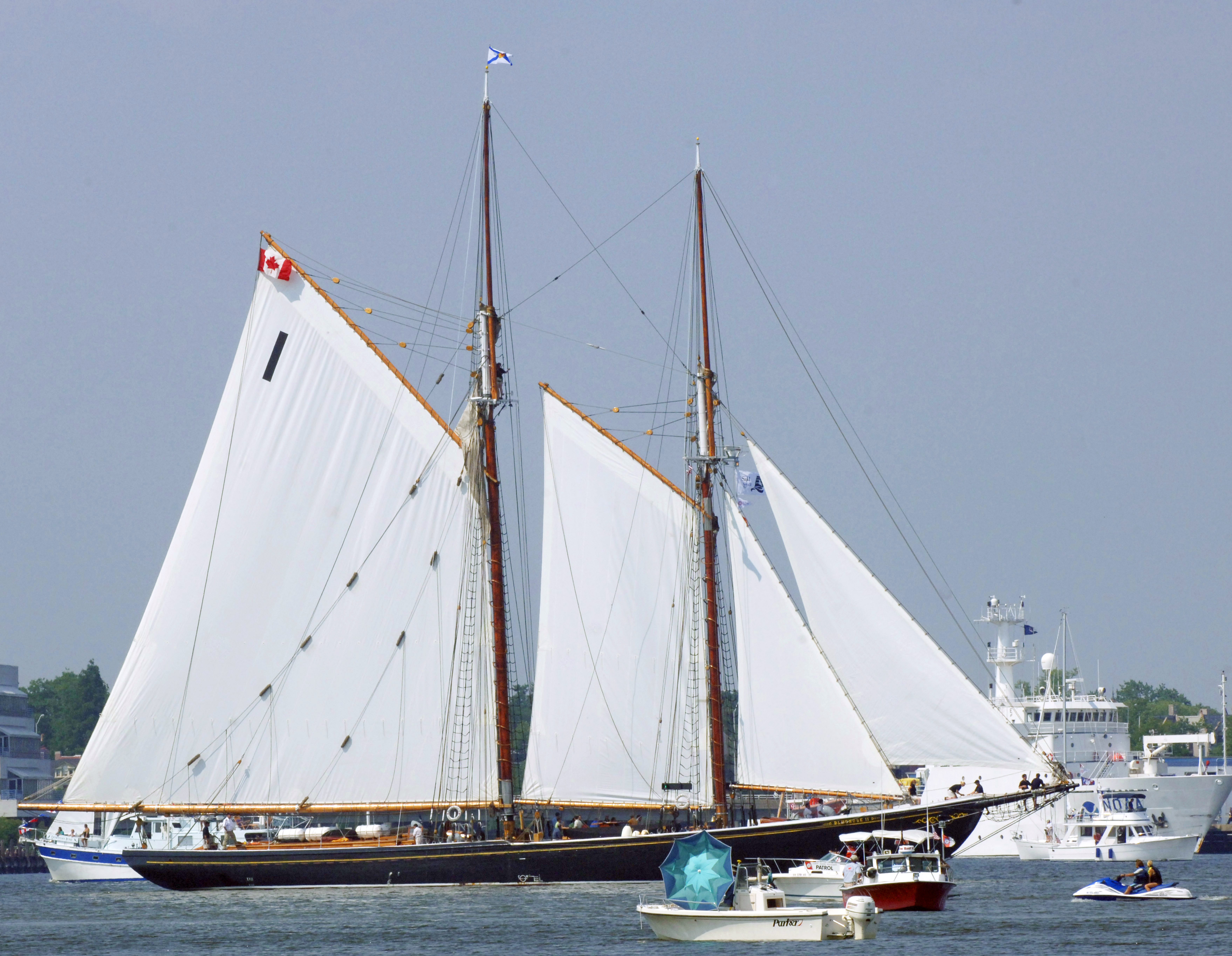 Bluenose II sails into Norfolk Harbor, to participate in Norfolk Harbor Fest. The 30th Annual Harbor Fest included a Parade of Sail with more than 700 water vessels, honoring Capt. Lane Briggs and officially kicked off the weekend celebration.